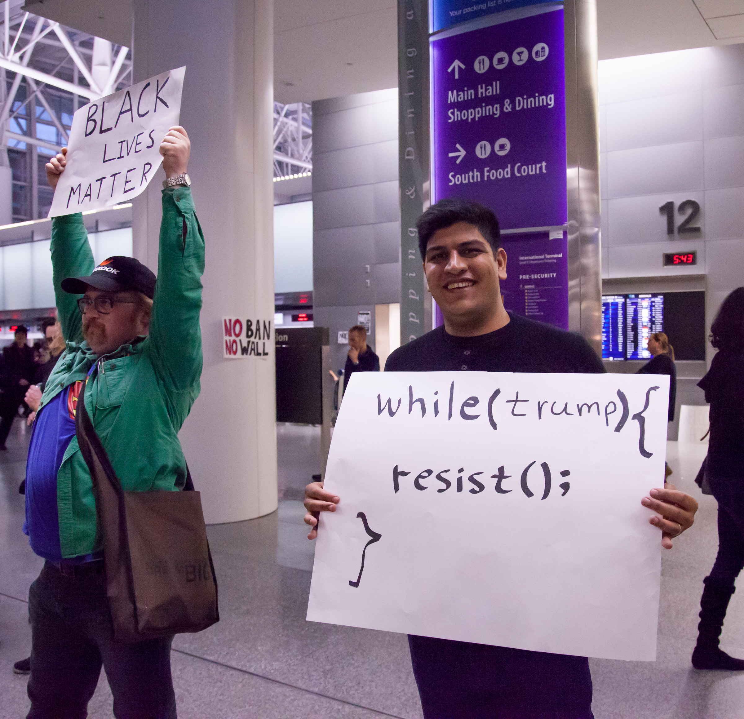 assumed computer programmer holding a protest sign in a presumed computer language: while (trump) { resist ; }